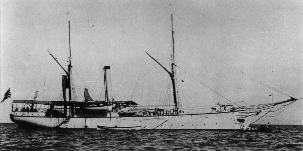 Japanese gunboat SOKOU (ex-Chinese gunboat CAOJIANG) at Kobe.